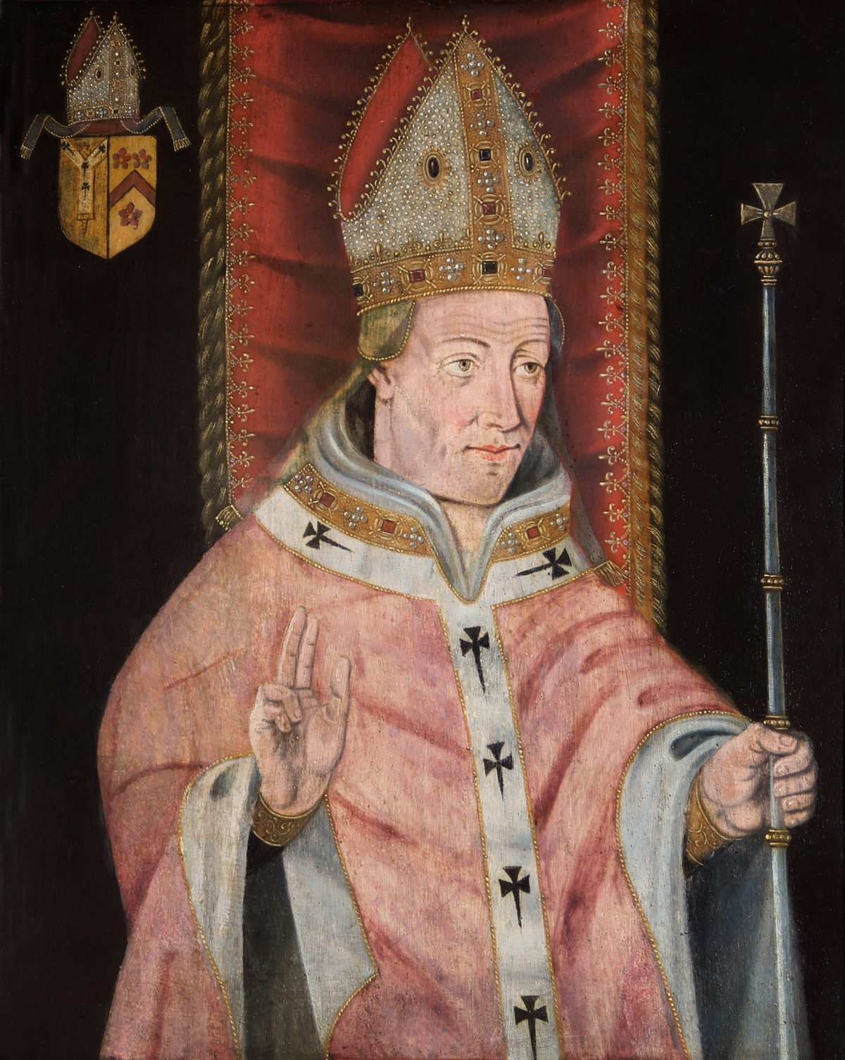 Henry Chichele (c.1364-1443), Archbishop of Canterbury (1414-1443)